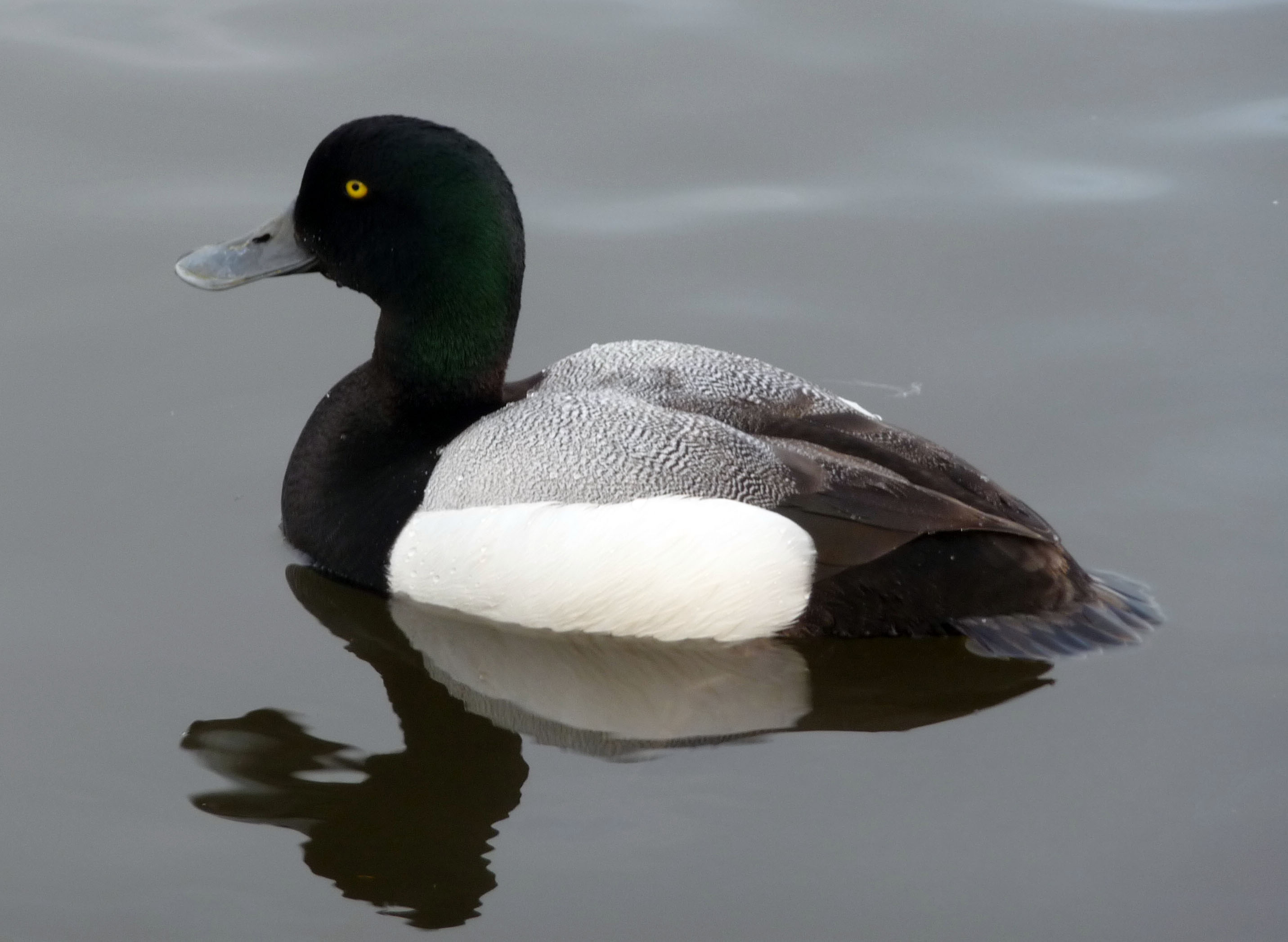 Greater Scaup (Aythya marila)